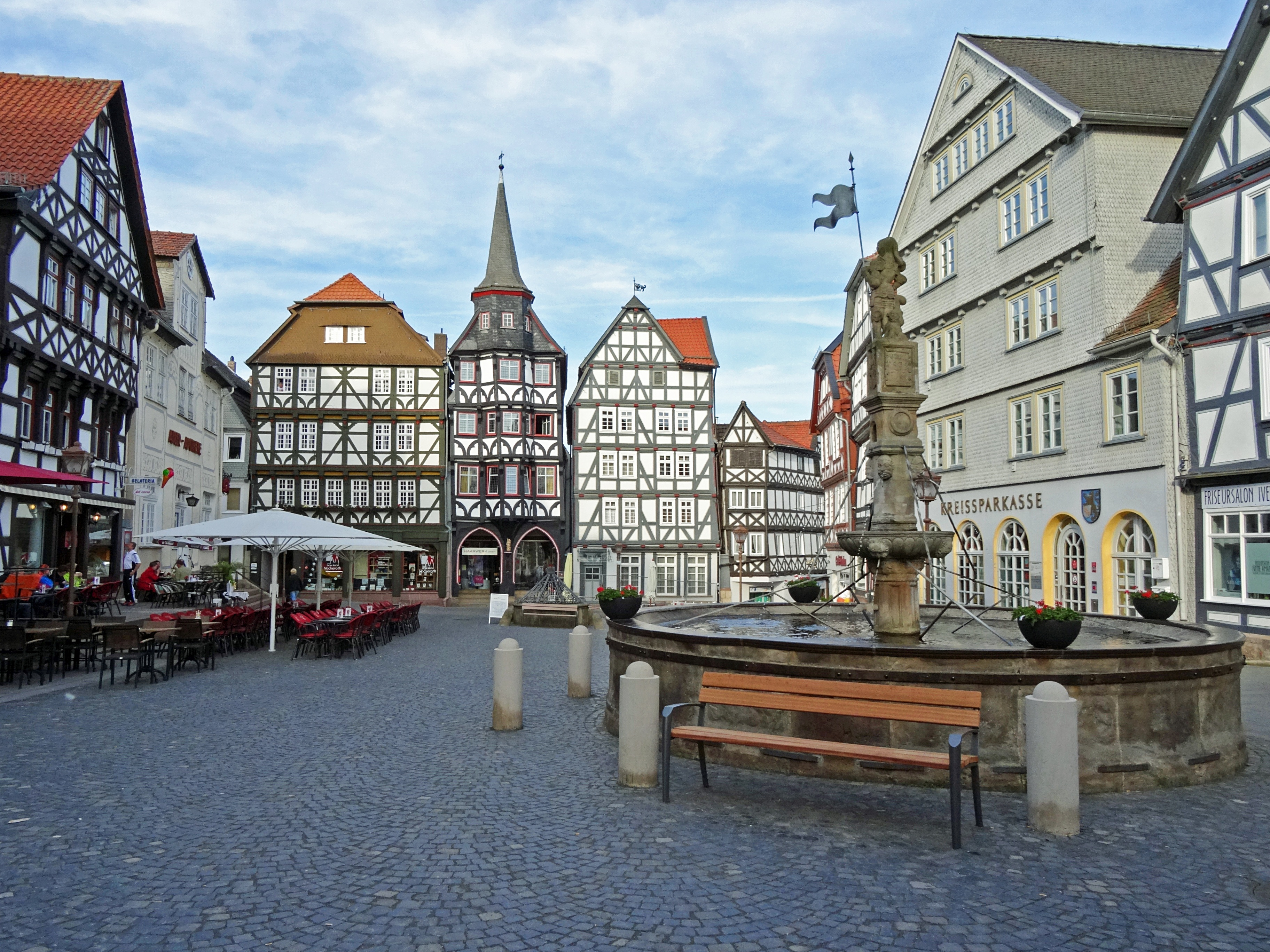 Marketplace of Fritzlar (Hassia, Germany) with Gilde house in the middle